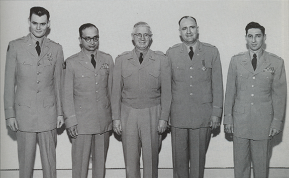 Lt. Howard Steele Jr. (left), Maj. Corso (2nd from left), Col. Kalle Rasmussen (center), Lt. Col. John Thames (2nd from right), and 1st Lt. Lee Sherman (far right). They are in Tokyo.